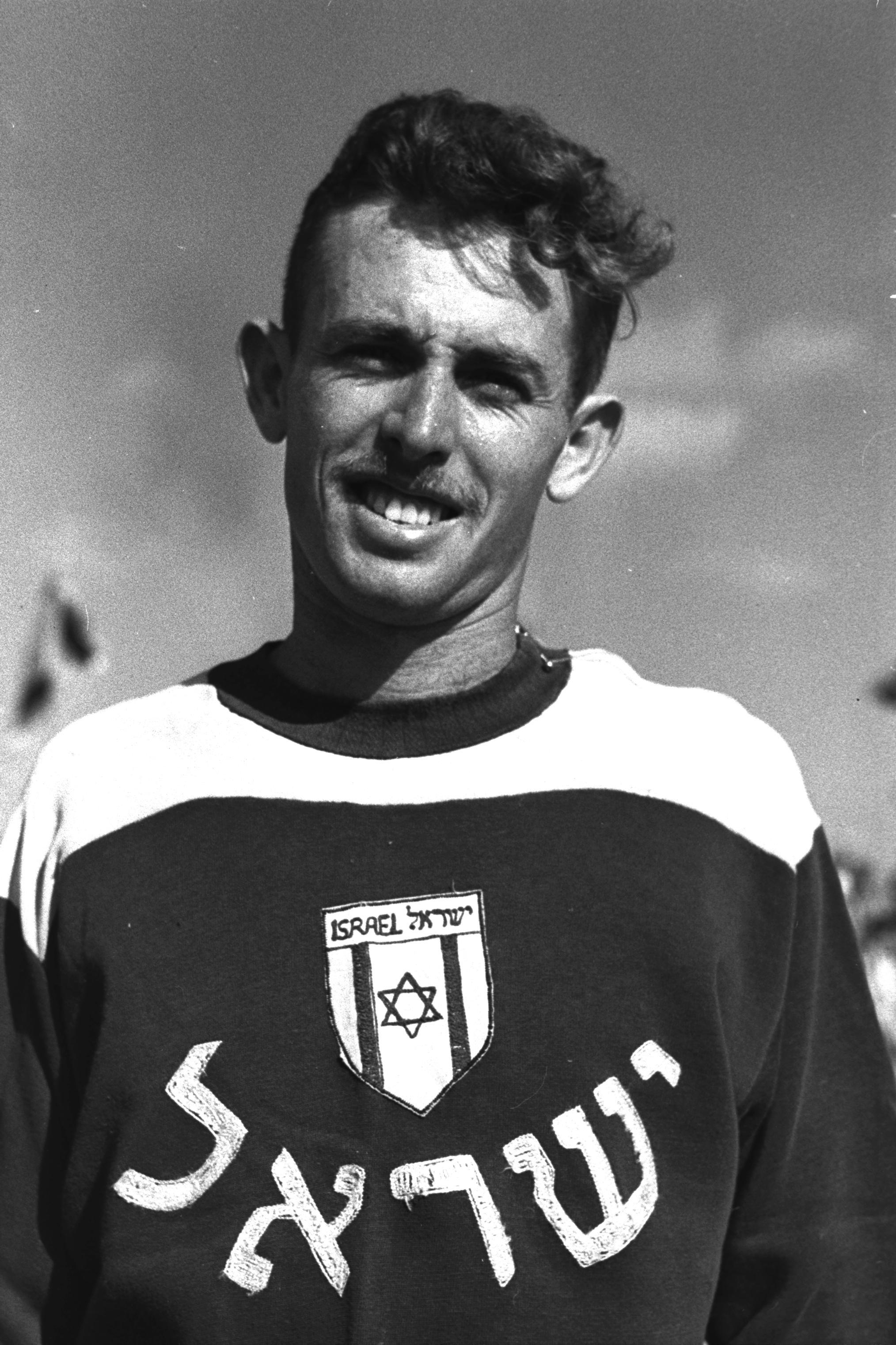 ARYE NAVEH OF ISRAEL, A HIGH JUMPER PARTICIPATING IN THE 5TH "MACCABIA GAMES", HELD AT THE RAMAT GAN STADIUM.